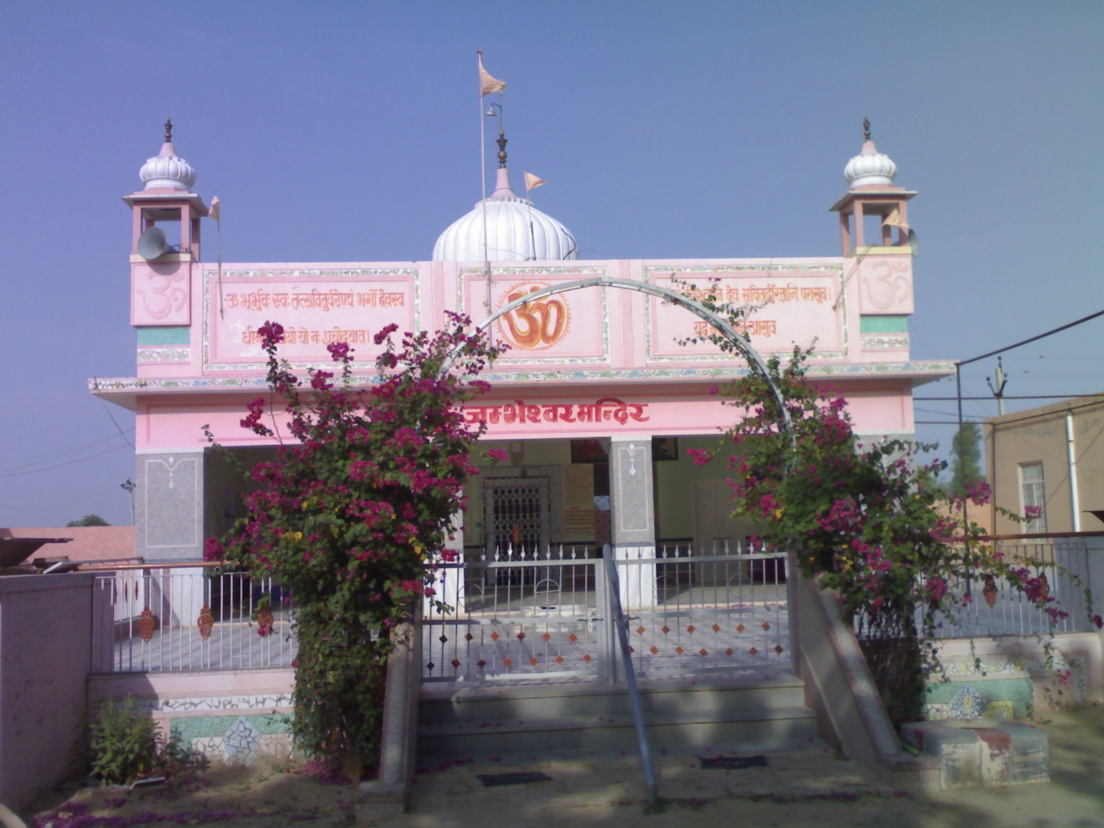 i wikiuser:SHEMAROO aka SIVENDER SINGH have taken and uploaded for wikipedia.this is about Bishnoi temple at Rawla Mandi. Shemaroo|User:Shemaroo|Shemaroo (talk|User talk:Shemaroo|talk) 13:35, 22 August 2012 (UTC)